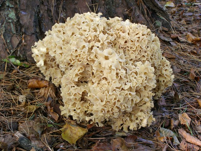 Sparassis crispa fungus, Woodfidley, New Forest Growing at the base of a large pine tree on Woodfidley hill in the Denny Lodge Inclosure, this sparassis crispa fruiting body weighed in at nearly 1.5 kilograms. Also known as the "Cauliflower Fungus", its flesh is edible with a very mild taste. There is a similar species called Sparassis brevipes which is also edible, but shouldn't be picked as it is an endangered species.